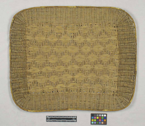 Donor Name: Major John W. Powell Culture: Hopi Object Type: Basket Place: Arizona, United States, North America Accession Date: 1876-May-29 Topic: Ethnology Accession Number: 76A00060 USNM Number: E22899-0